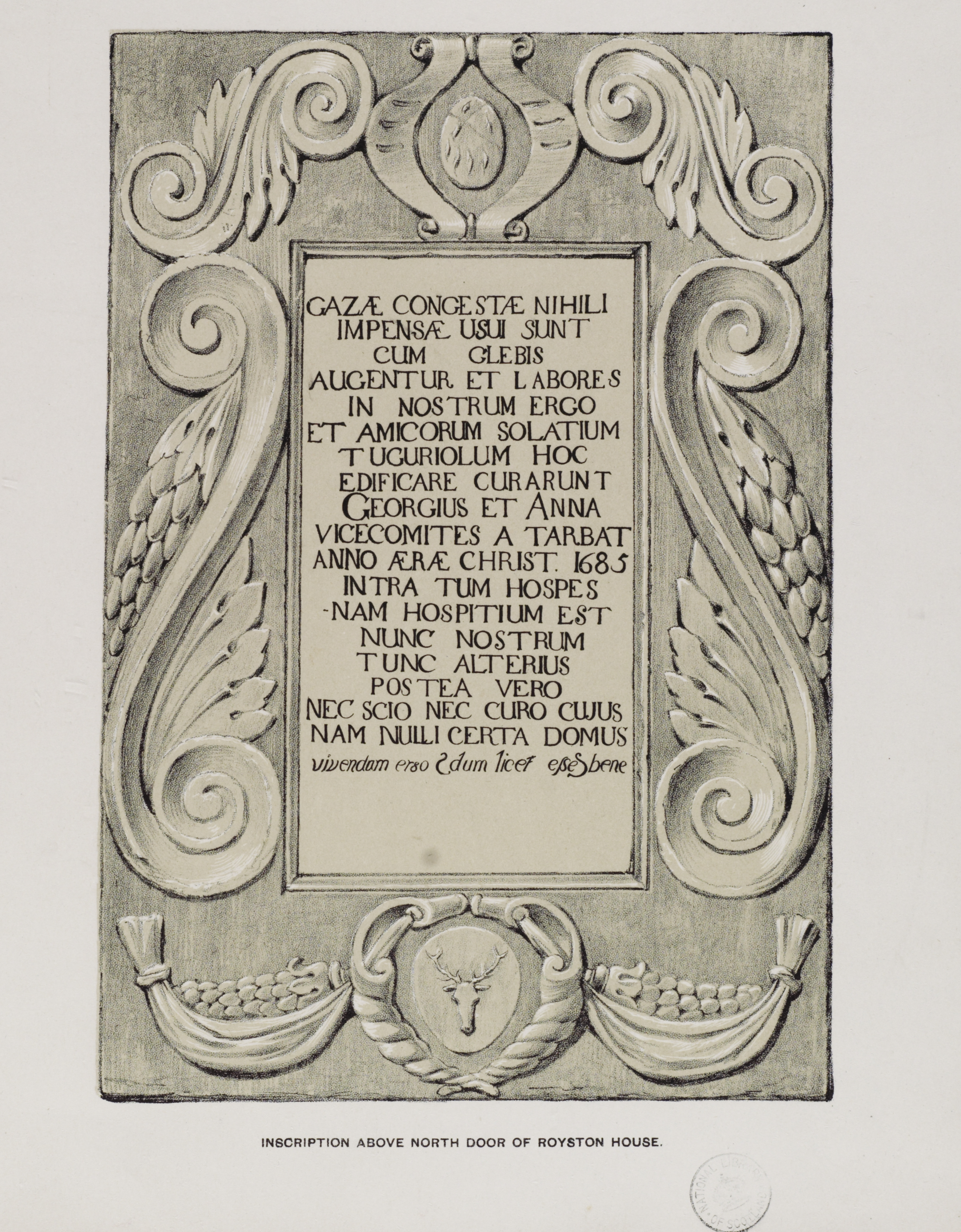 Reproduction of inscription about North Door of Royston House